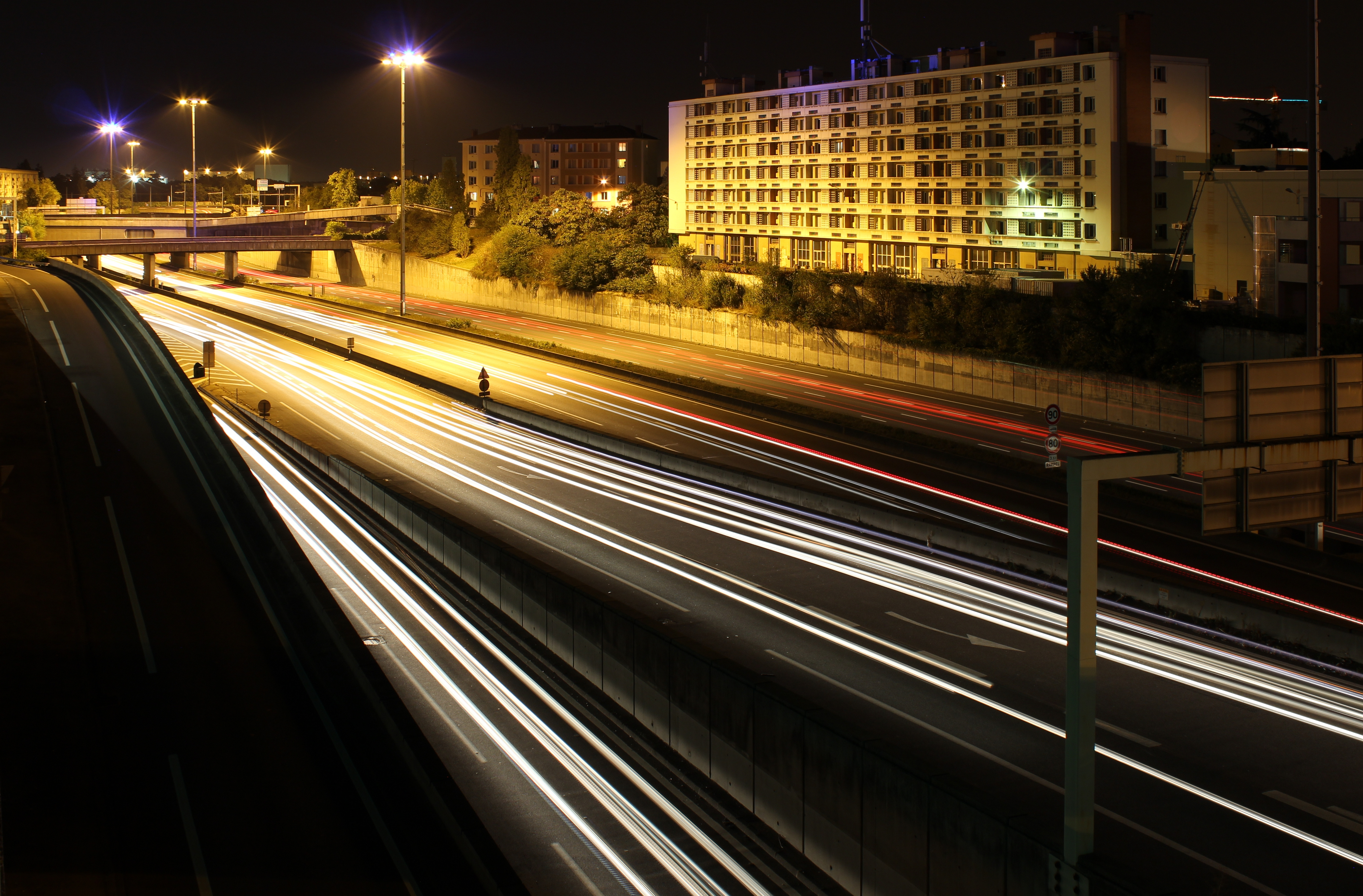 Exit n° 7 of the ring road of Lyon, in Villeurbanne, by night.